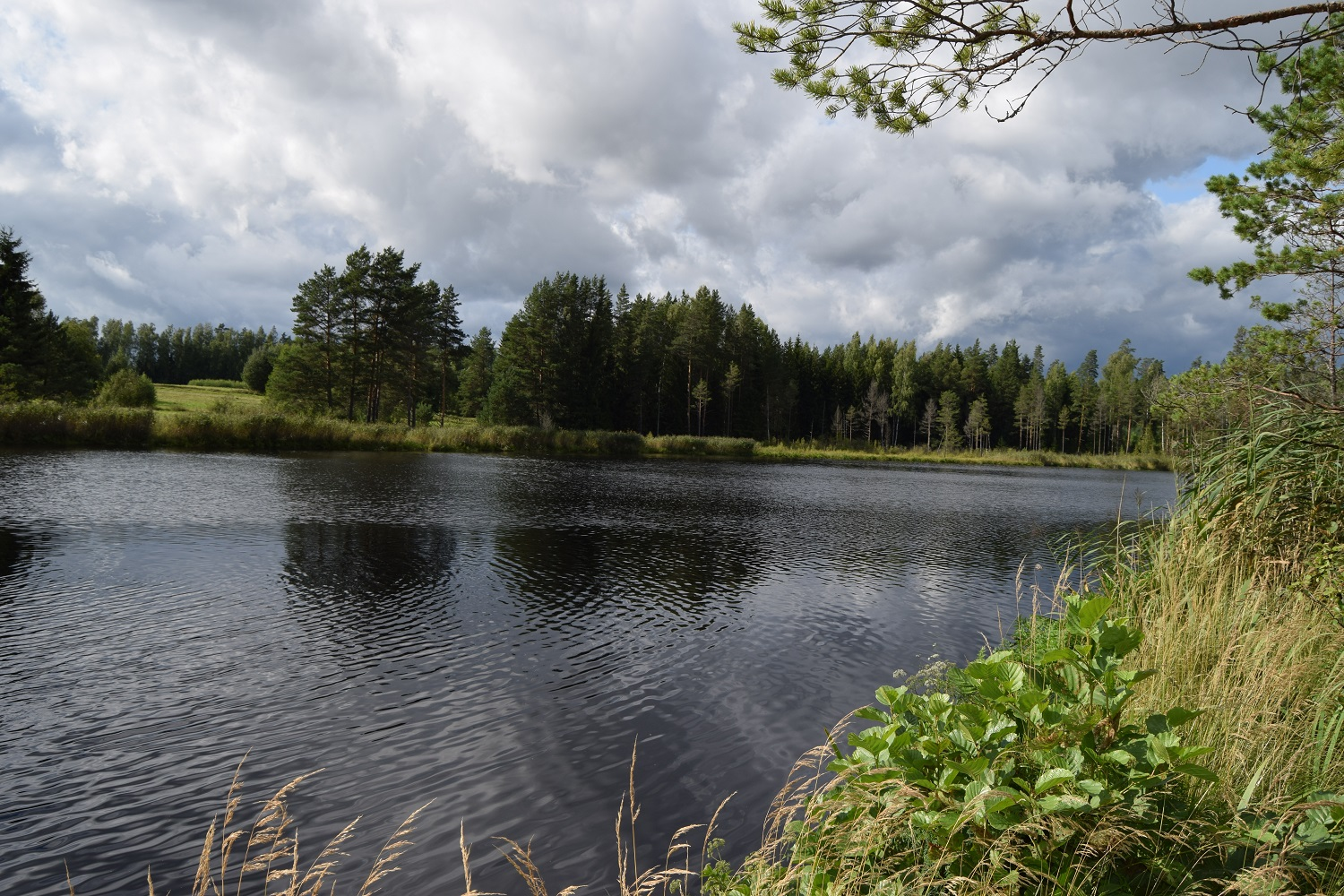 Mustjärv